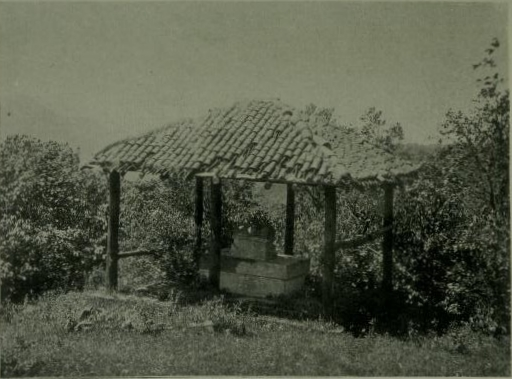 Afzalkhan's tomb Pratapgad